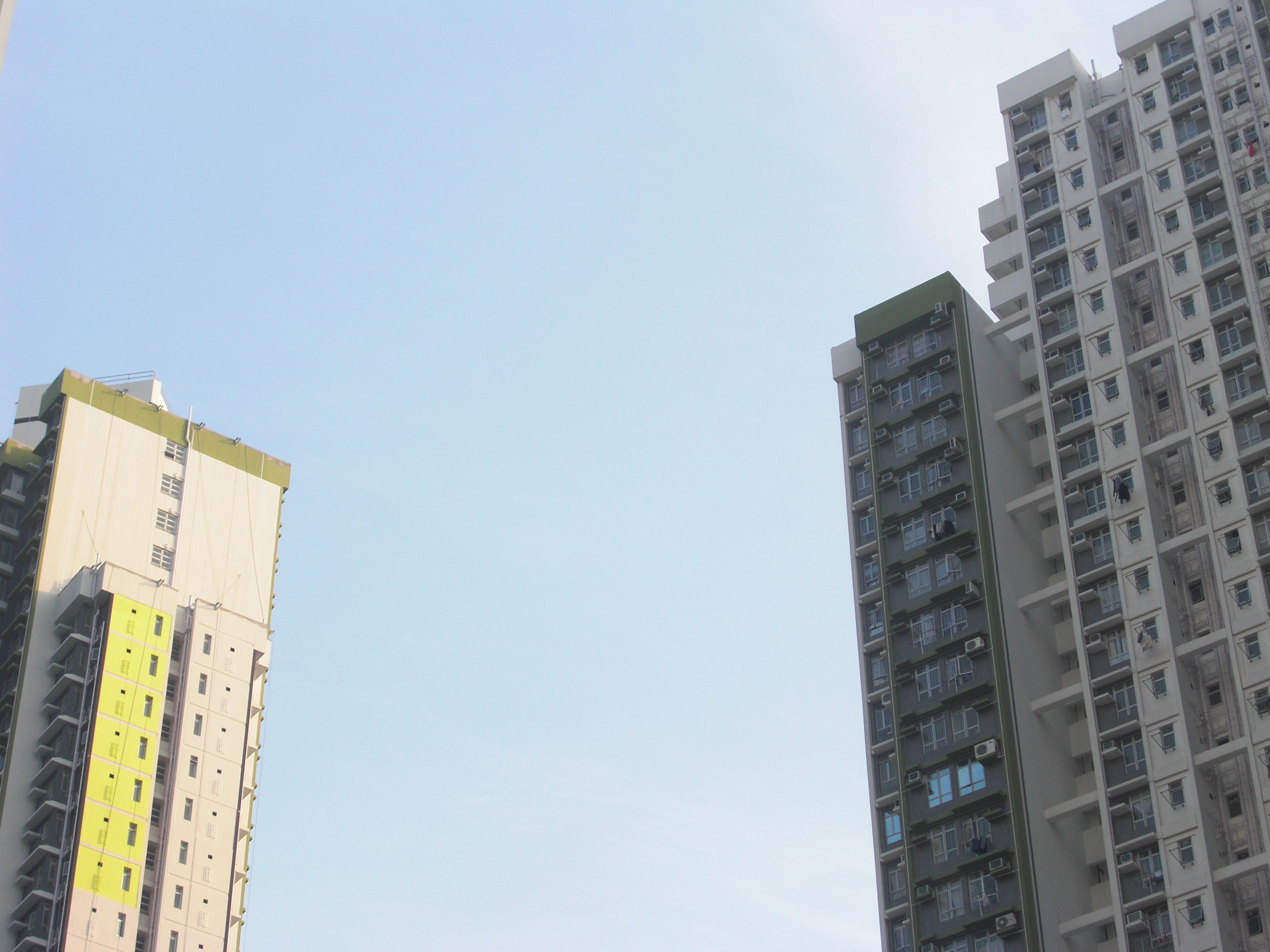 A view of the setback design of the Non-Standard Domestic Blocks at Choi Fook Estate.